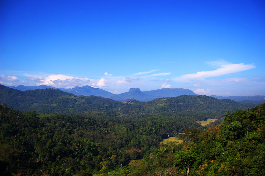 Scenery enroute from Batalegala - Kadugannawa Sri Lanka